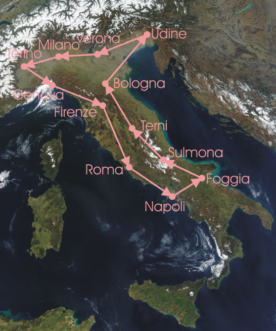 Map of Italy highlighting the stages of 1926 Giro d'Italia